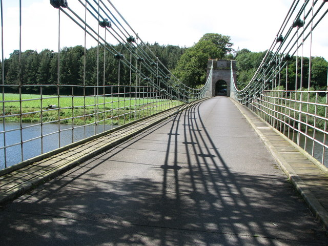 The Union Chain Bridge A view North over the Chain Bridge that crosses the River Tweed